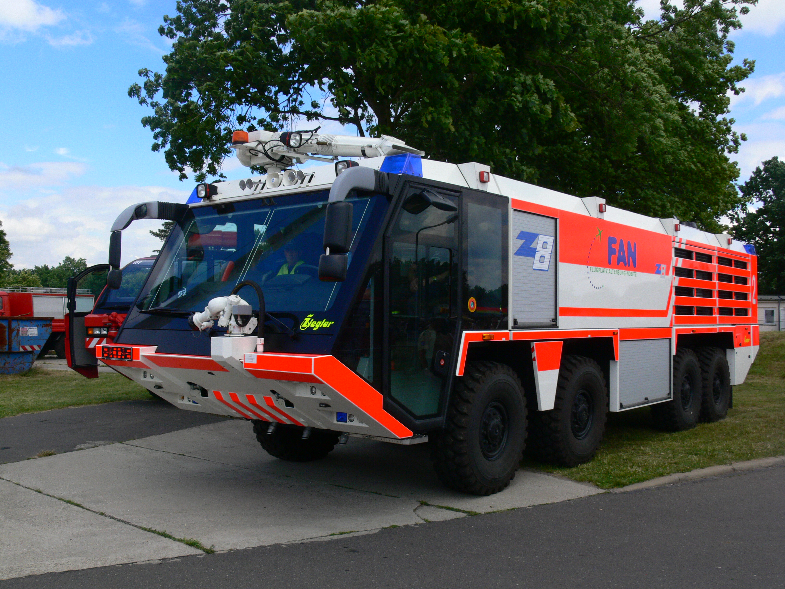 Airport crash tender Ziegler Z8 at Leipzig-Altenburg Airport